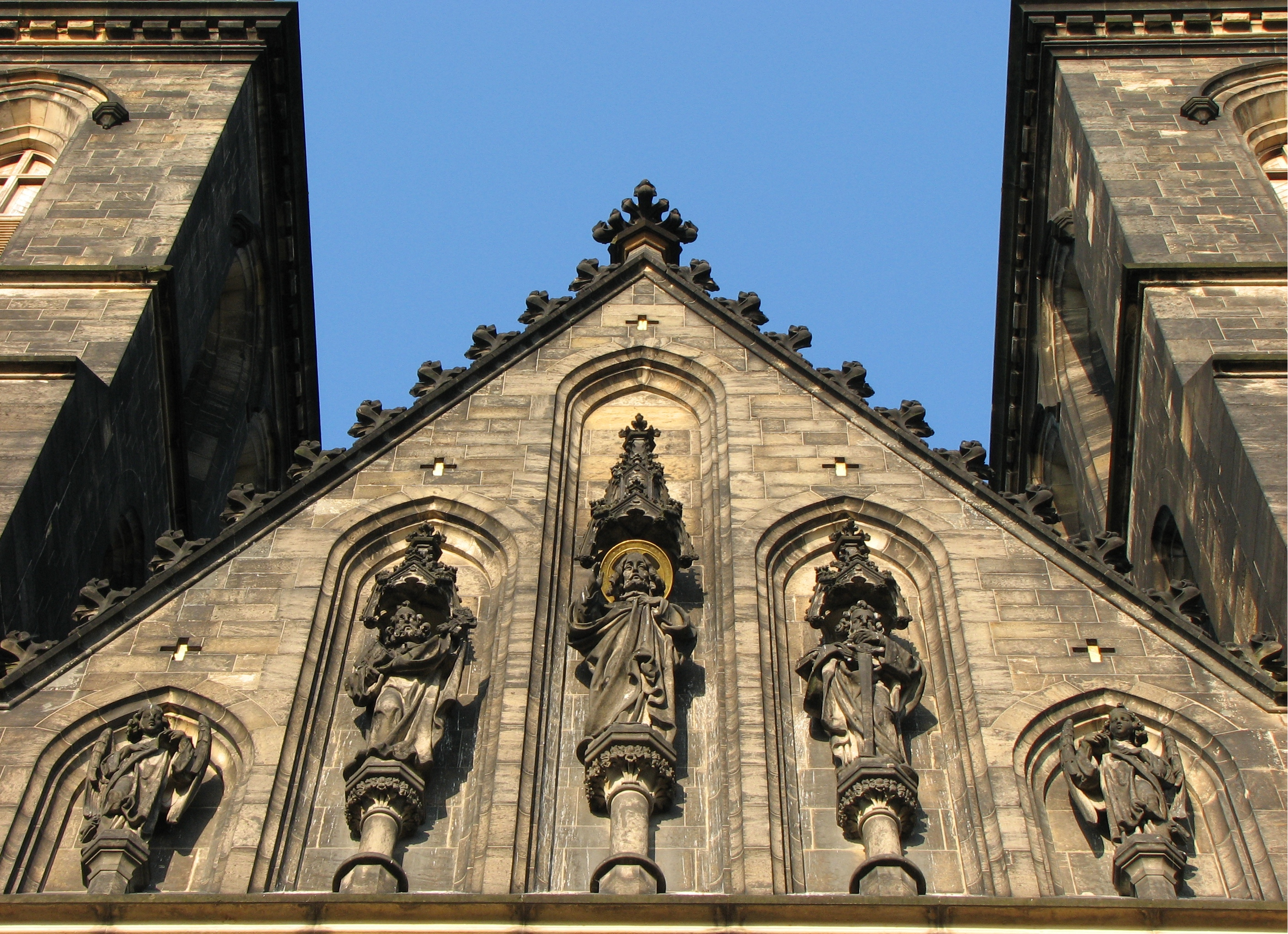 Basilica of St Peter and St Paul